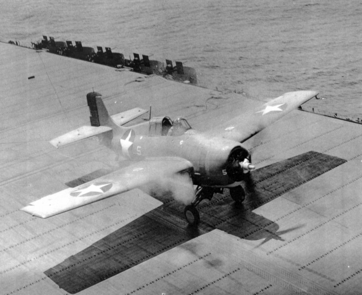 A U.S. Navy Grumman F4F-4 Wildcat of fighting squadron VF-3 from the USS Yorktown (CV-5) lands on the aircraft carrier USS Hornet (CV-8), circa 15:30 h, 4 June 1942. The plane "3-F-5" was piloted by Ens. H. A. Bass, USNR, who had forgotten to close the firing circuit switch, and had inadvertently pressed the firing key when the plane stopped suddenly. The six 12.7 mm machine guns opened fire, but the bullets passed harmlessly over the deck.